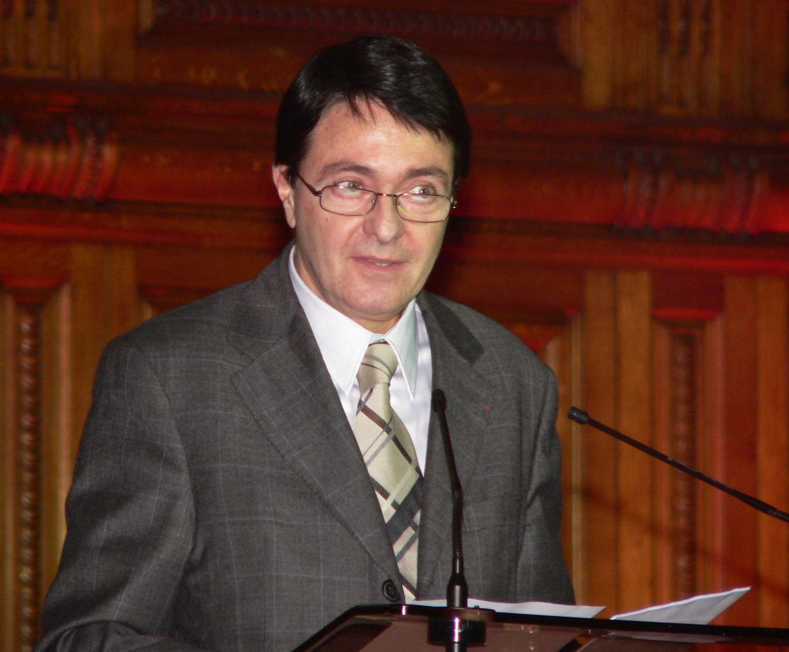 Jacques Stern, French cryptologist, during a speech before receiving the gold medal of CNRS